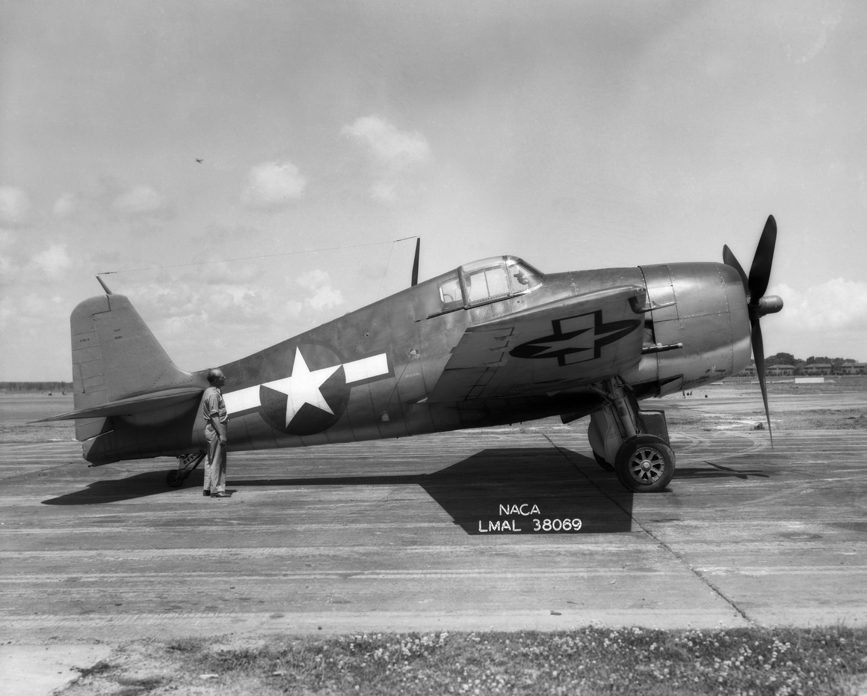 The U.S. Navy Grumman XF6F-4 Hellcat prototype (BuNo 02981) at the NACA Langley Research Center on 5 May 1944. The XF6F-4 was fitted with four 20 mm cannons and a Pratt & Whitney R-2800-27 engine.